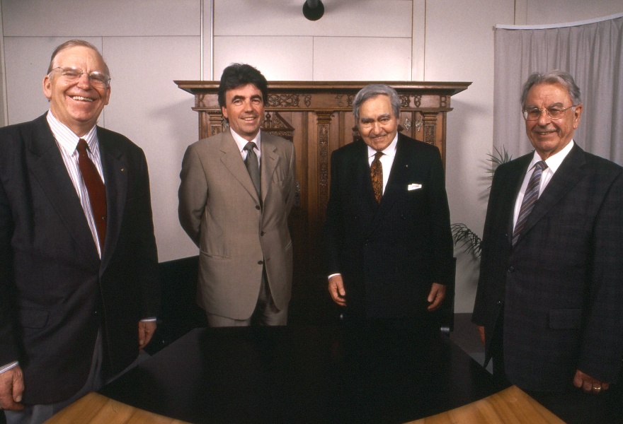 The first four presidents of the Swiss École polytechnique fédérale de Lausanne, at the 150th anniversary of the school: Jean-Claude Badoux, Patrick Aebischer, Maurice Cosanday and Bernard Vittoz.